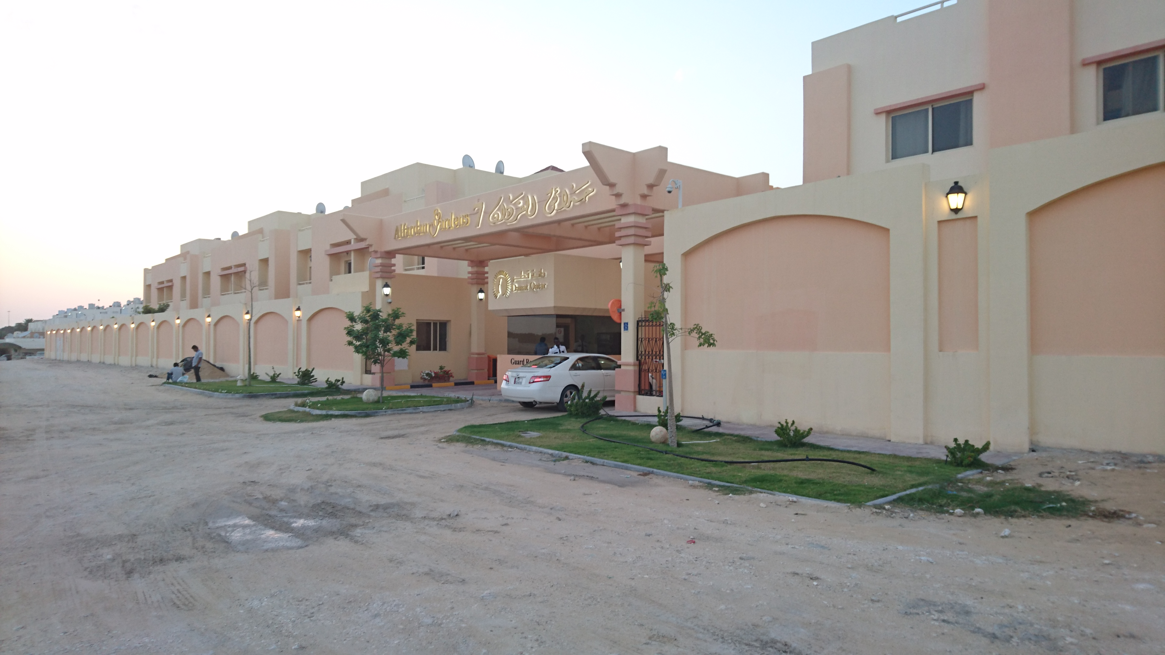 Al Fardan Gardens 7 in Al Messila district of Doha, Qatar.